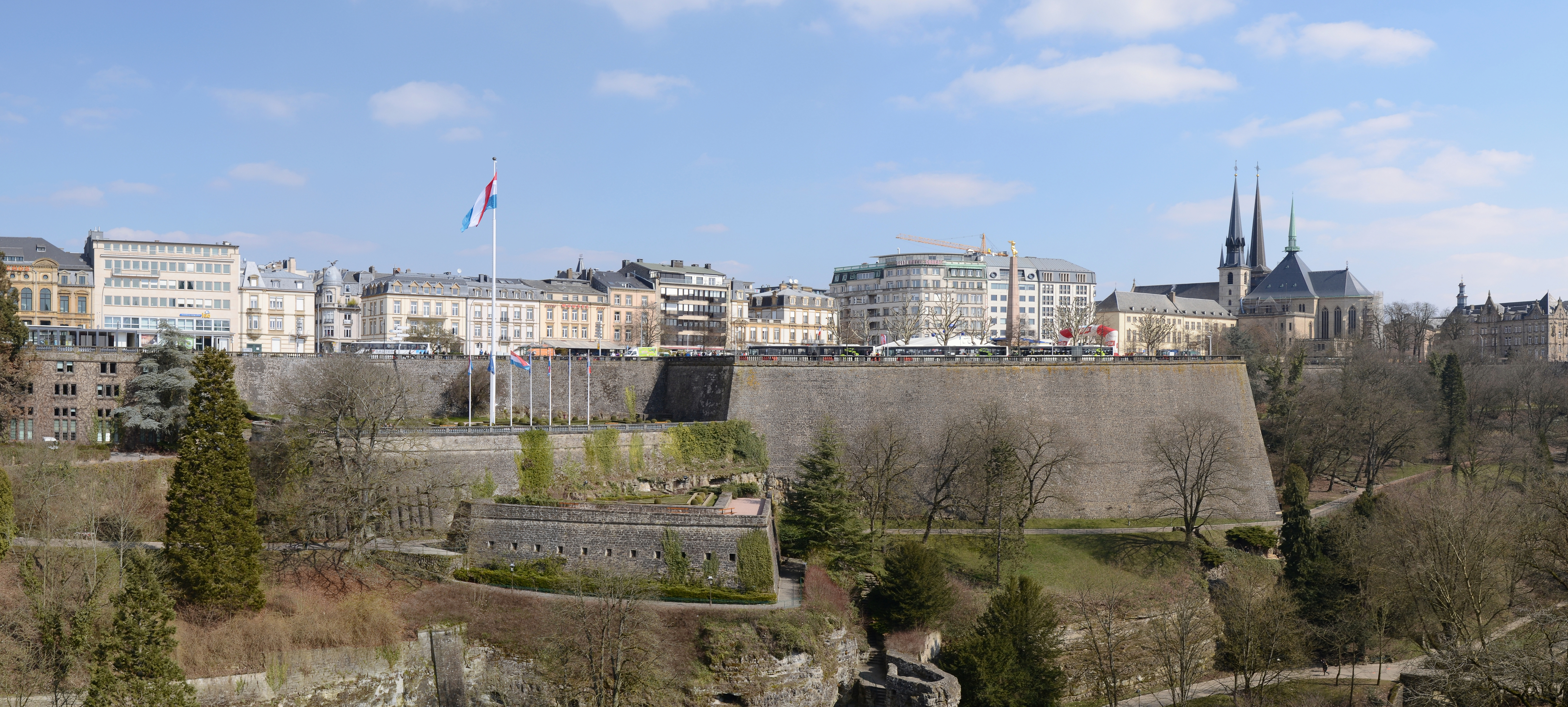 Luxembourg (city) - view from Metz square